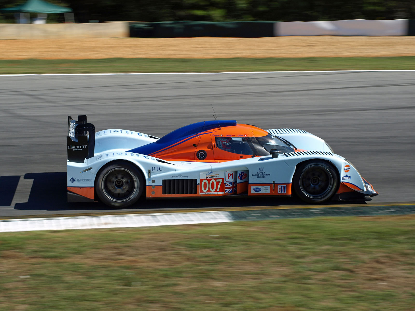 Stefan Mücke driving the Aston Martin Racing Lola-Aston Martin B09/60 in qualifying for the 2011 Petit Le Mans at Road Atlanta.